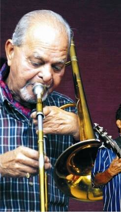 Guitar and Trombone player